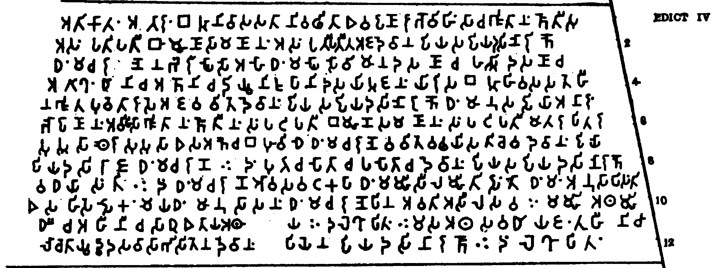 Girnar Major Rock Edict No4